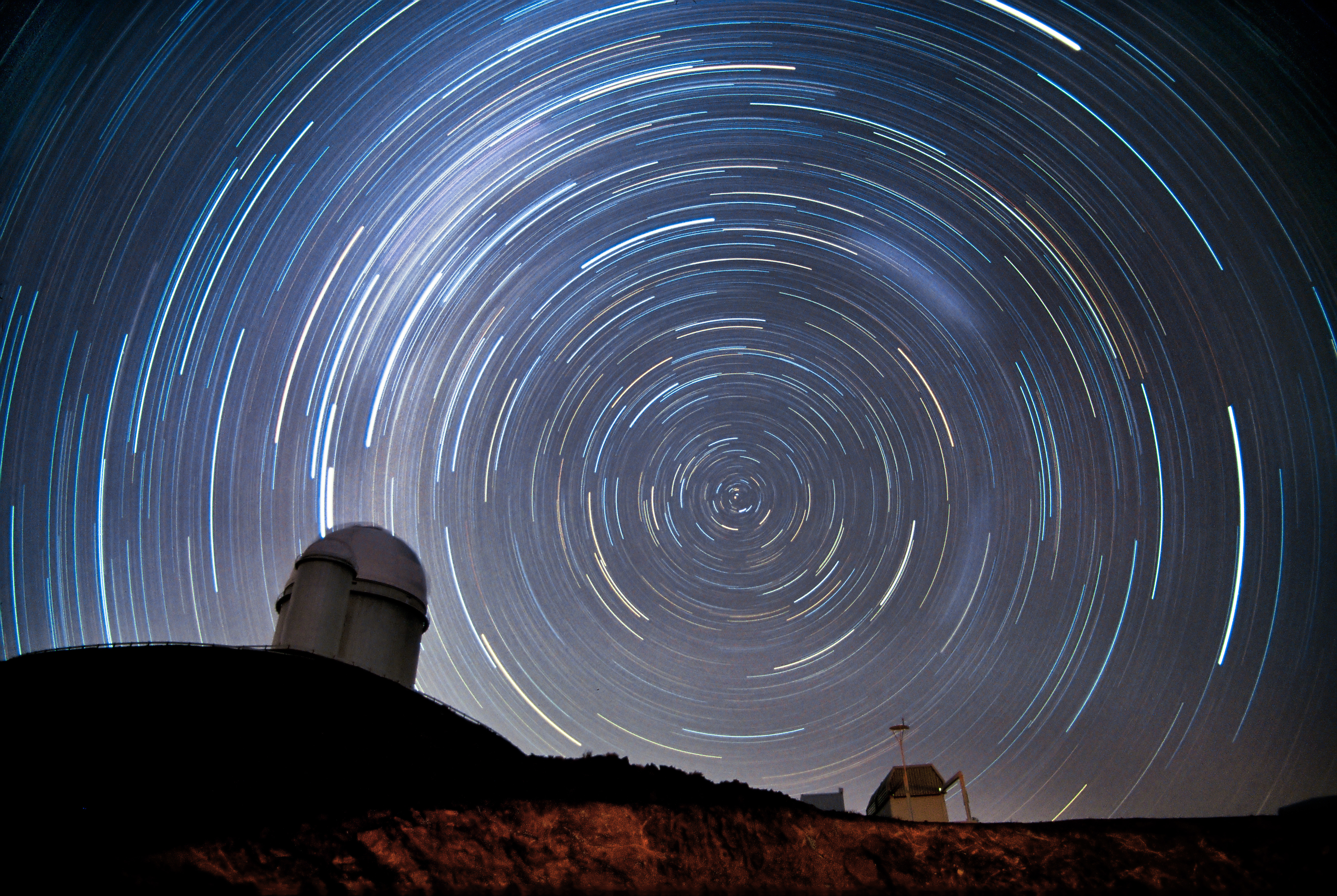 The stars rotate around the southern celestial pole during a night at ESO’s La Silla Observatory in northern Chile. The fuzzy parts in the trails on the right are due to the Magellanic Clouds, two small galaxies neighbouring the Milky Way. The dome seen in the image hosts ESO’s 3.6-metre telescope and is home to HARPS (High Accuracy Radial velocity Planet Searcher), the world’s foremost exoplanet hunter. The rectangular building seen in the lower right of the image contains the 0.25-metre TAROT telescope, designed to react very quickly when a gamma-ray burst is detected. Other telescopes at La Silla include the 2.2-metre MPG/ESO telescope, and the 3.58-metre New Technology Telescope, the first telescope to use active optics and, as such, the precursor to all modern large telescopes. La Silla was ESO’s first observing site and is still one of the premier observatories in the southern hemisphere.